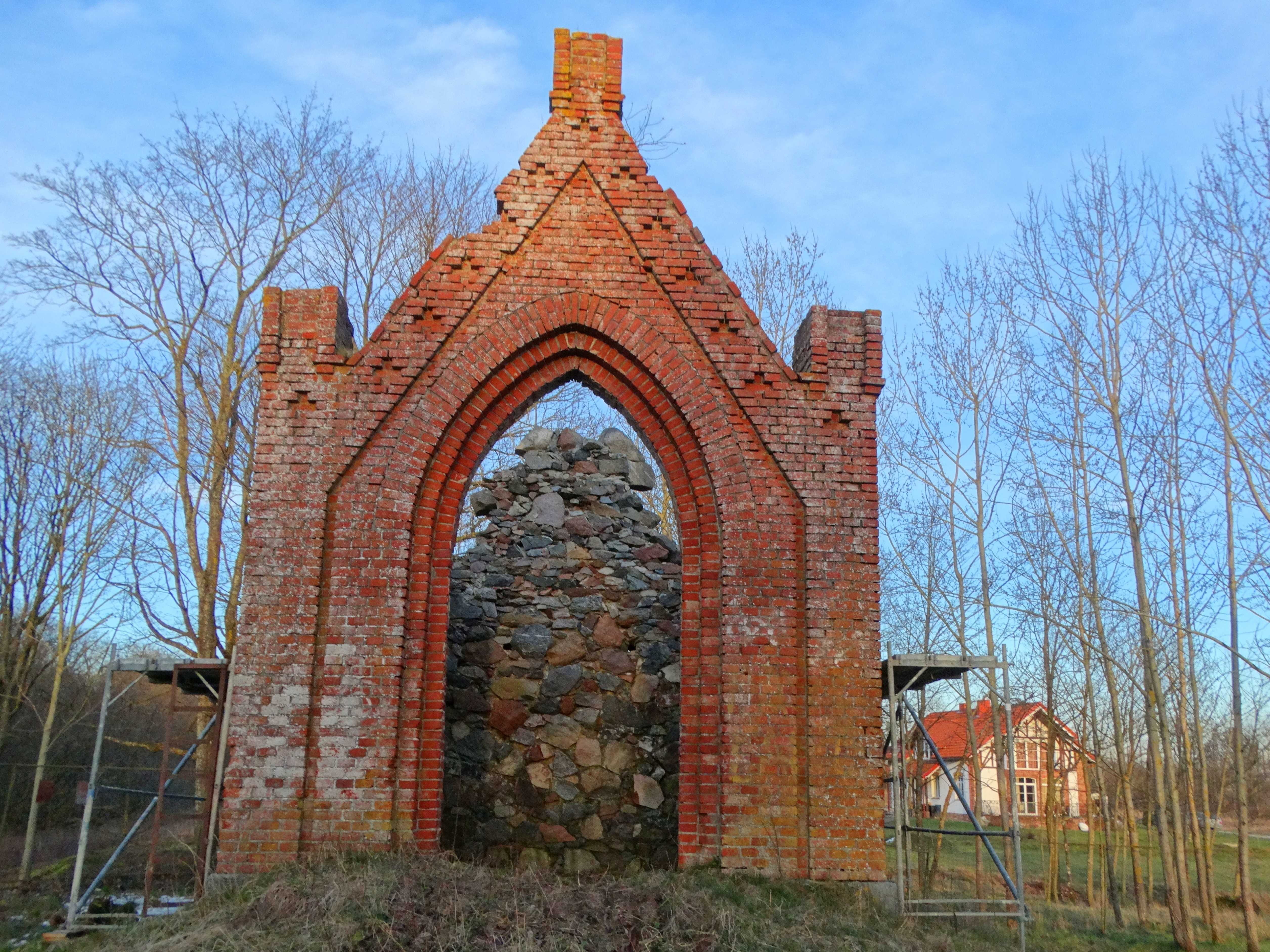 Stragnai II, former funeral chapel, Klaipėda district, Lithuania